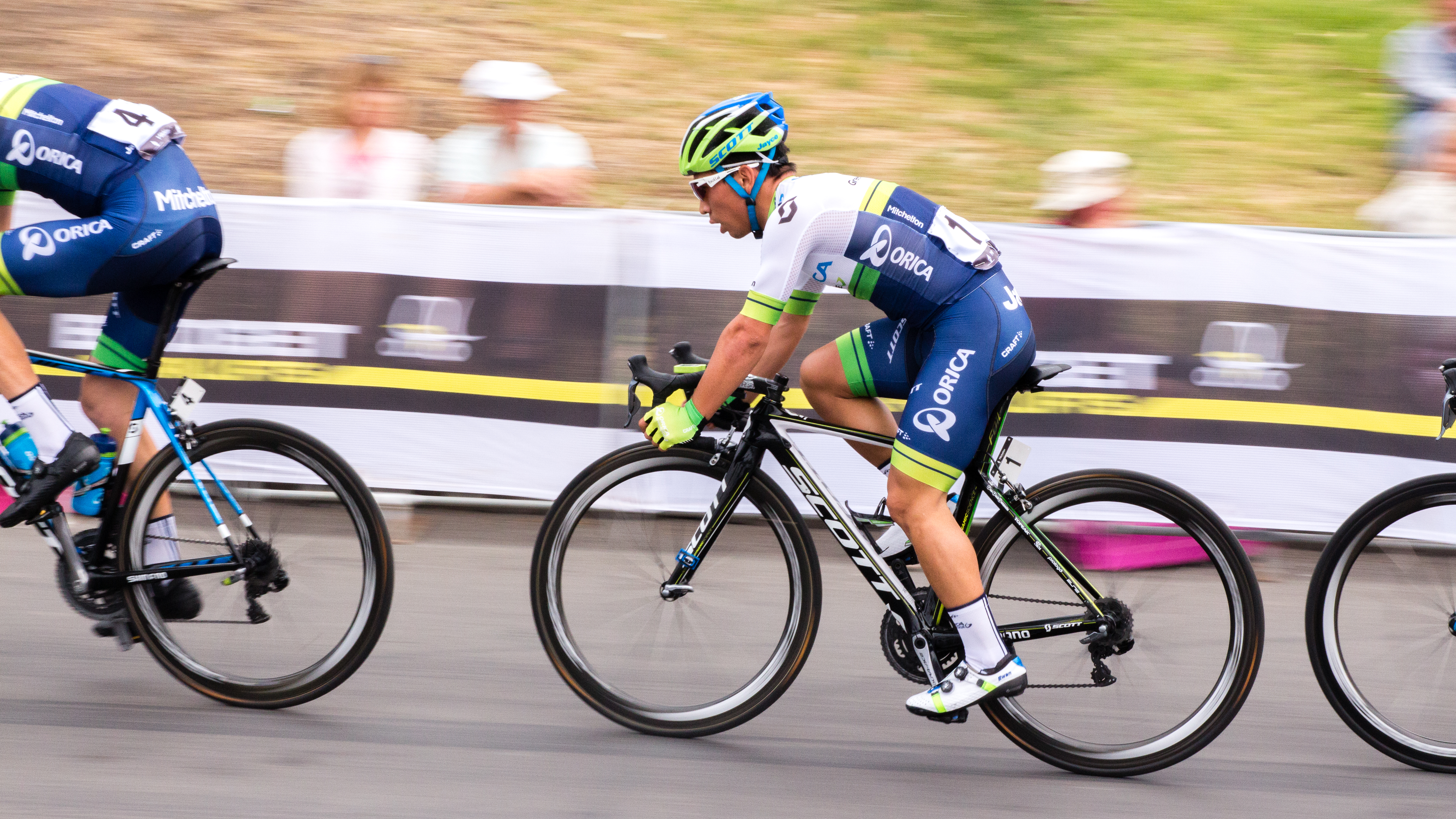 2016 Bay Crits